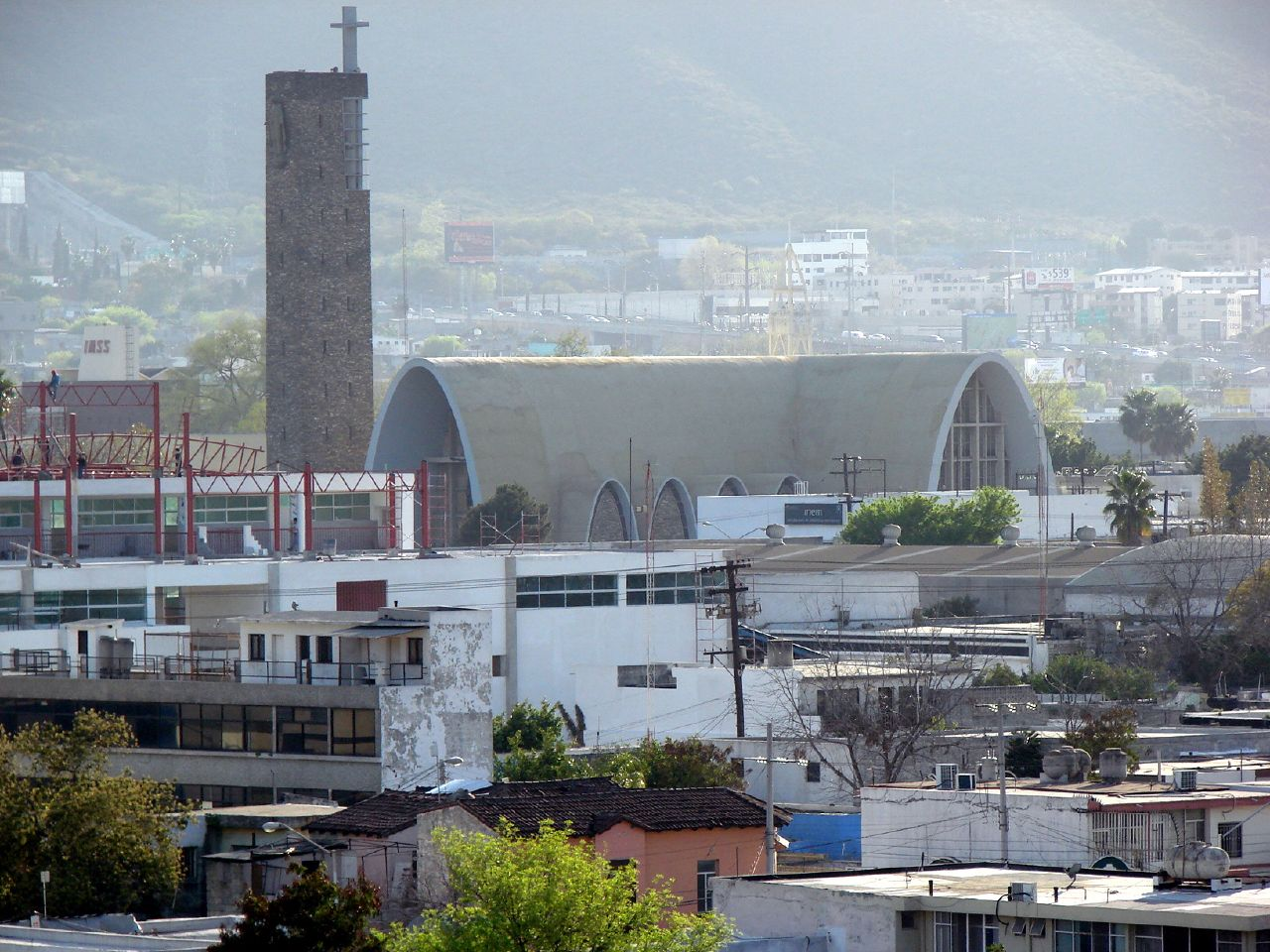 La Purisima Parish Church in Monterrey Mexico. Built by Arch Enrique de la Mora.